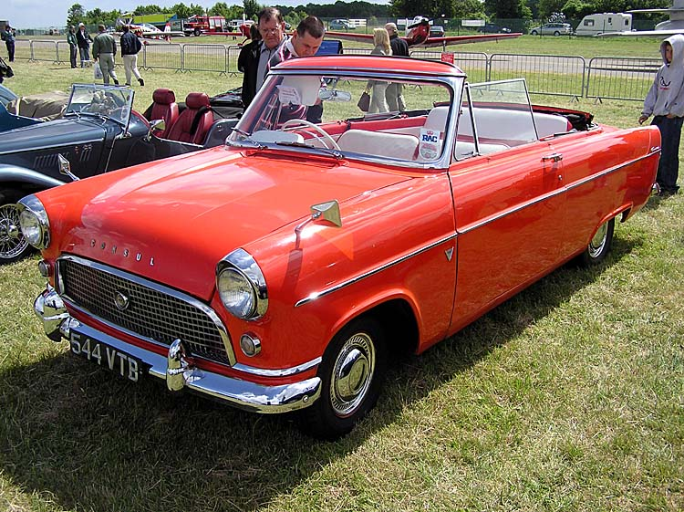 Ford Consul Mk2 at Kemble Airfield, Kemble, Gloucestershire, England. Date first registered 15 June 1961. Year of manufacture 1961 according to English government database.